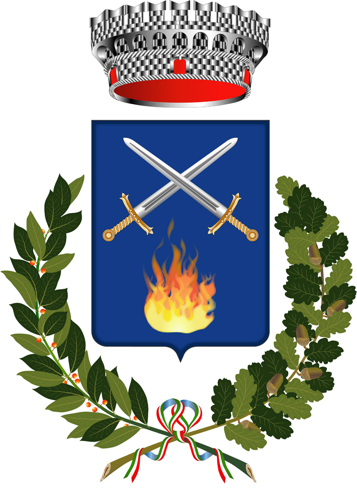 Coat of arms of Gergei (Cagliari), Italy